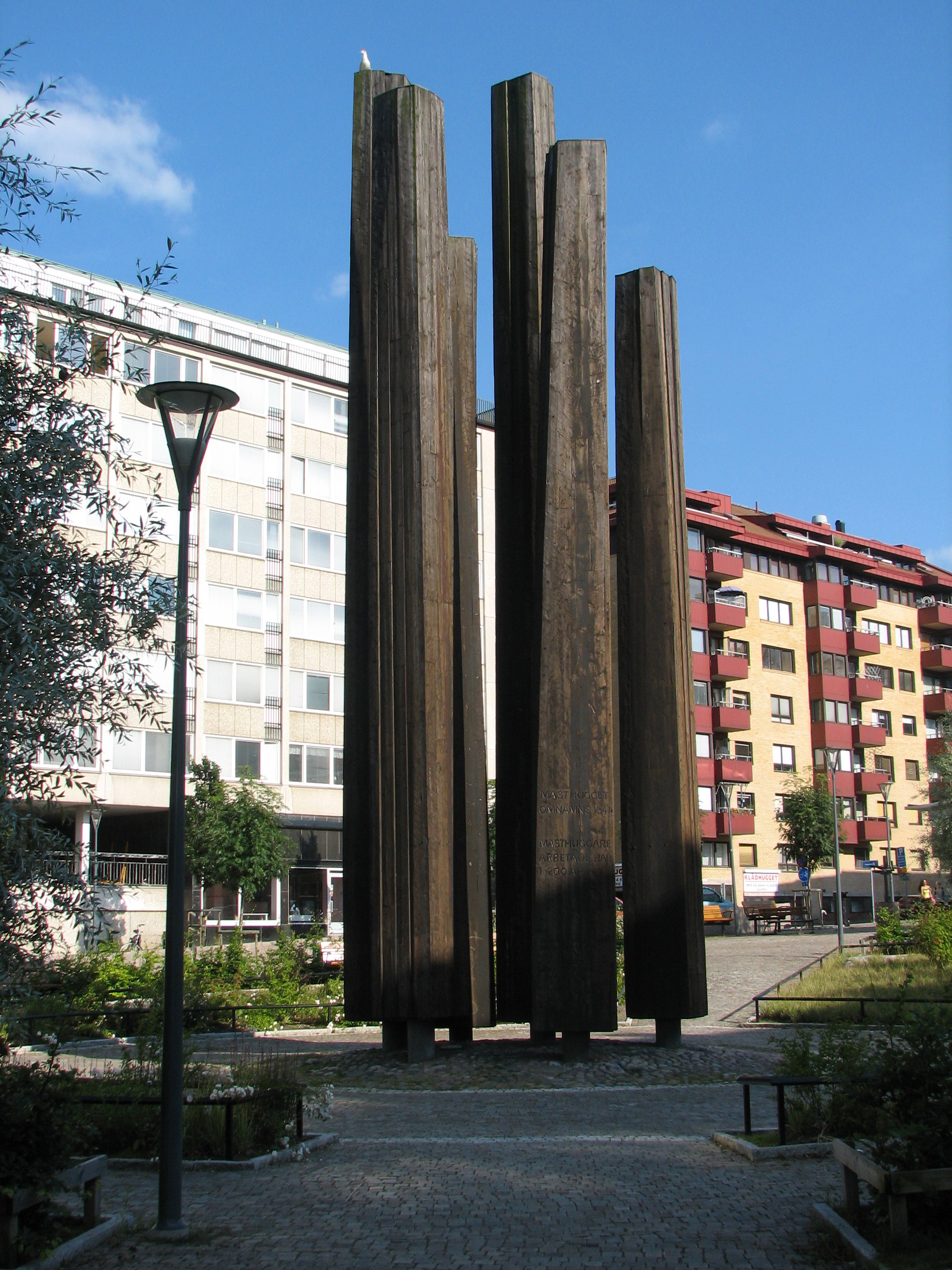 The sculpture Masterna by Erling Torkelsen, placed at Masthuggstorget in Göteborg, Sweden.